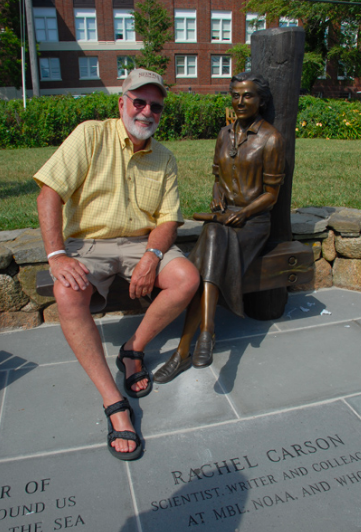 Statue sculptor David Lewis with his handiwork. Lewis recalled his own connections to the village of Woods Hole during the ceremony. Photo credit: Shelley Dawicki, NEFSC/NOAA